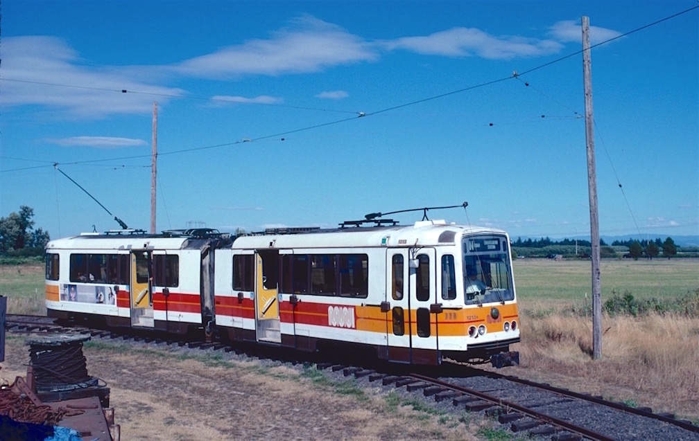 Ex-San Francisco Muni Boeing LRV No. 1213 in operation at the Oregon Electric Railway Museum (Brooks, Oregon) in August 2001. No. 1213 was built in 1977 as one of two 'pilot' cars for an order of LRVs by Muni and was originally numbered 1221. It was acquired by the Oregon Electric Railway Historical Society in 2000 and arrived at the museum in November 2000.